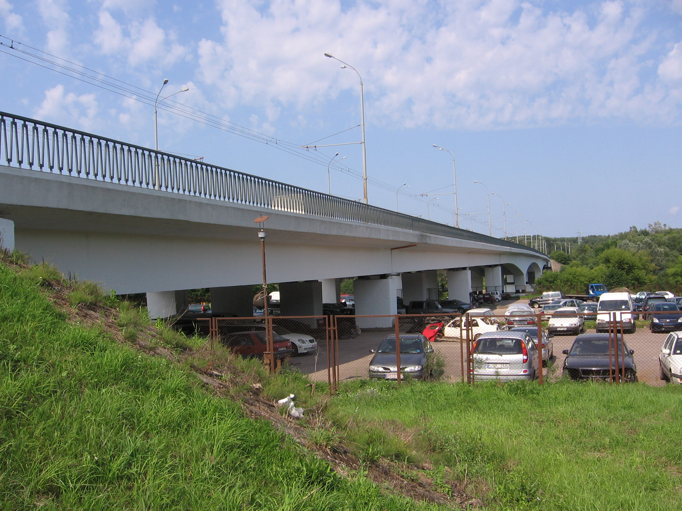 Valakupiai Bridge. Built in 1972. 341.5 meters long, as of 2007 it is still the longest bridge in Vilnius.